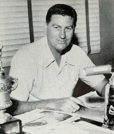 Loyola University New Orleans Basketball coach Jim McCafferty in 1955.